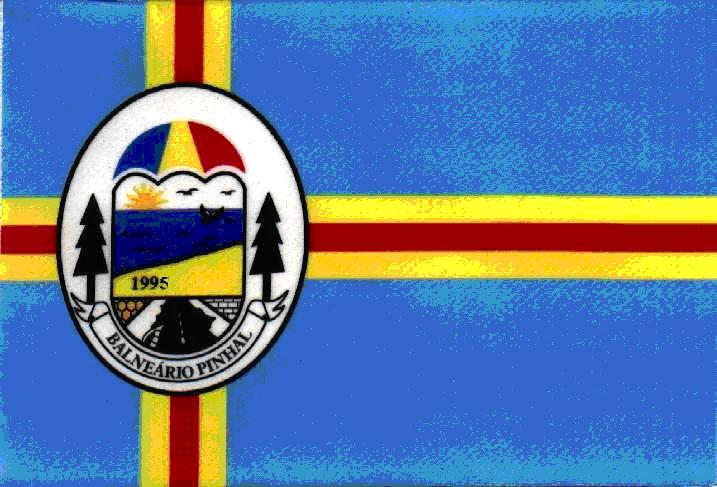 Flags of the city of Balneário Pinhal, Rio Grande do Sul, Brazil.